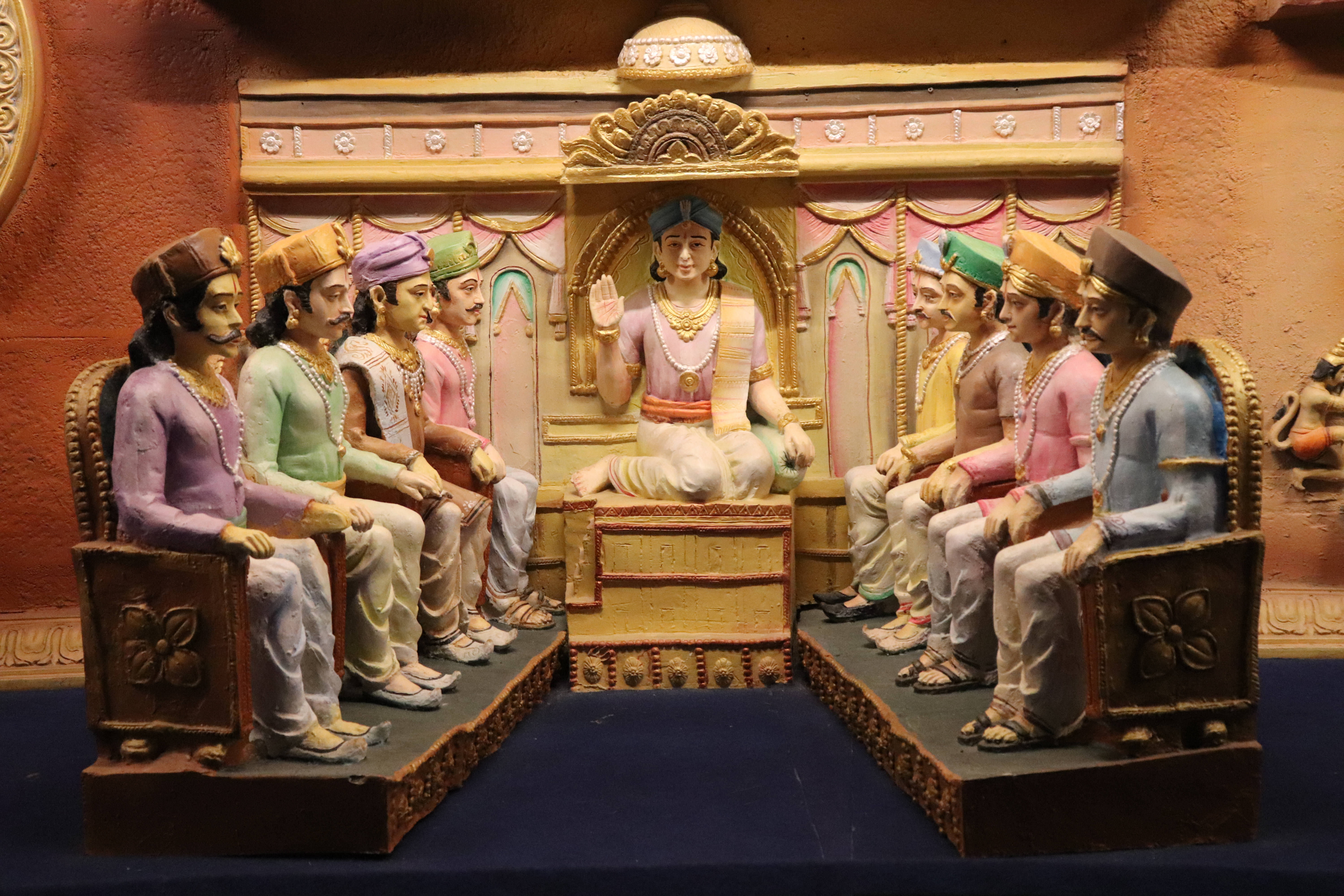 Srikrishnadevaraya is a well-known king of Hampi kingdom in Southern Andhra Pradesh